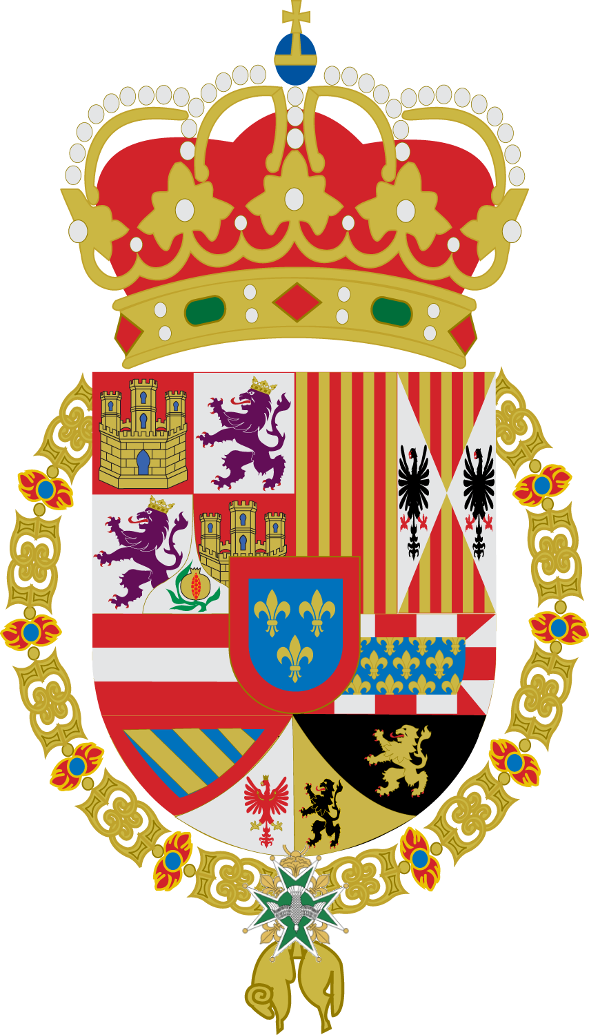 Coat of arms of the king Philip V of Spain (also Louis I and Ferdinand VI)